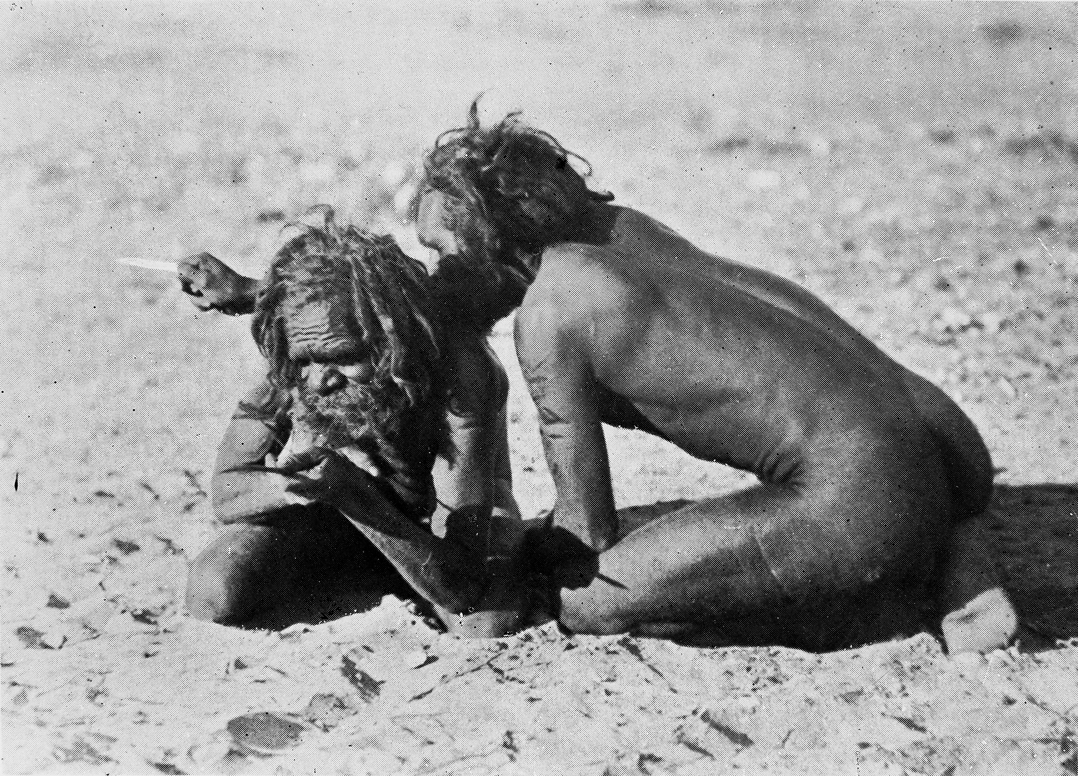 Men using a pointing bone, Aluridja people, Australia. General Collections Keywords: causation of disease; Ethnology; indigenous non-european medicine